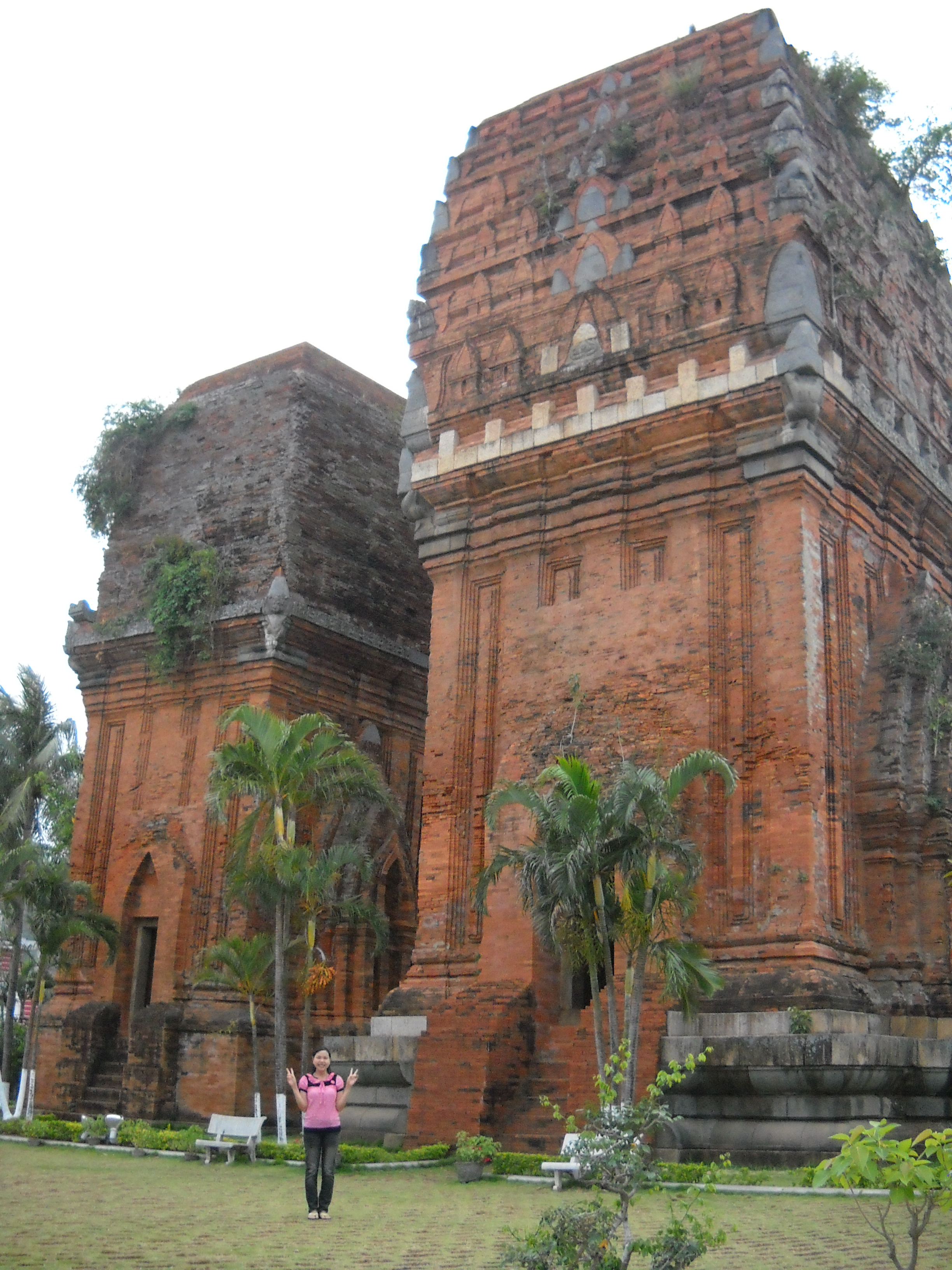 Cham tower Doi in Quy Nhon city, Binh Dinh Province, Vietnam